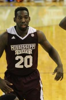 Florida Gators vs Mississippi State Basketball 2015/01/10